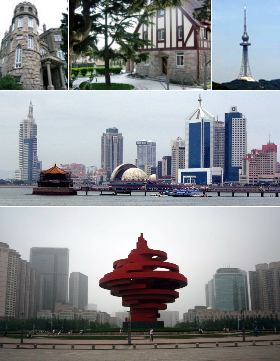 Montage of various Qingdao images